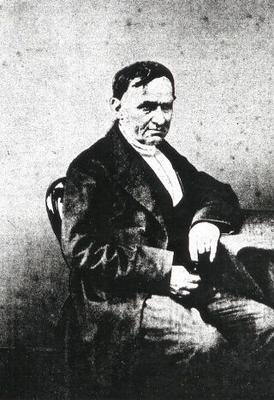 Luigi Canina (1795 - 1856). Classical scholar focussing the ancient city of Rome and the Restoration of ancient structures.